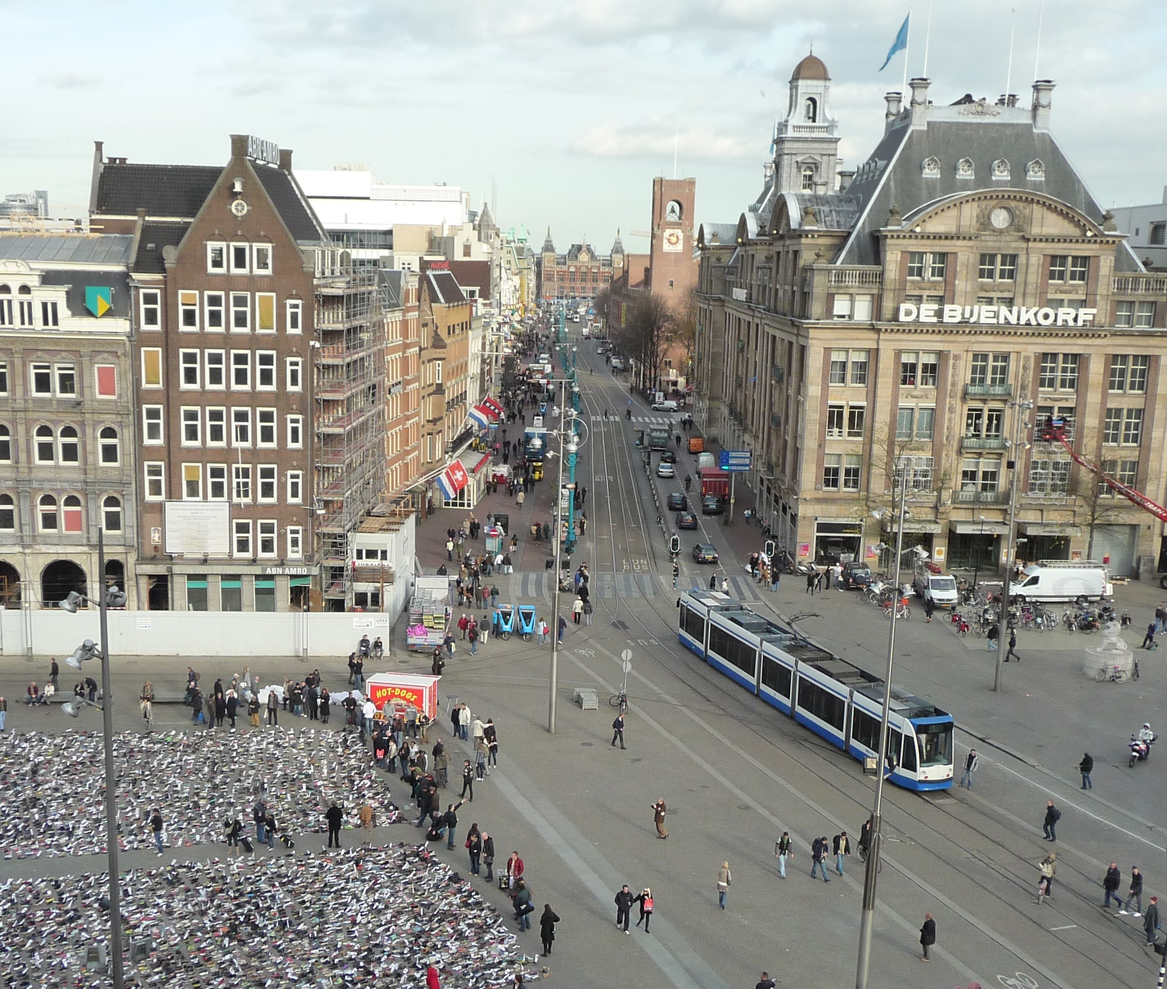 Damrak in the center of Amsterdam, the Netherlands.